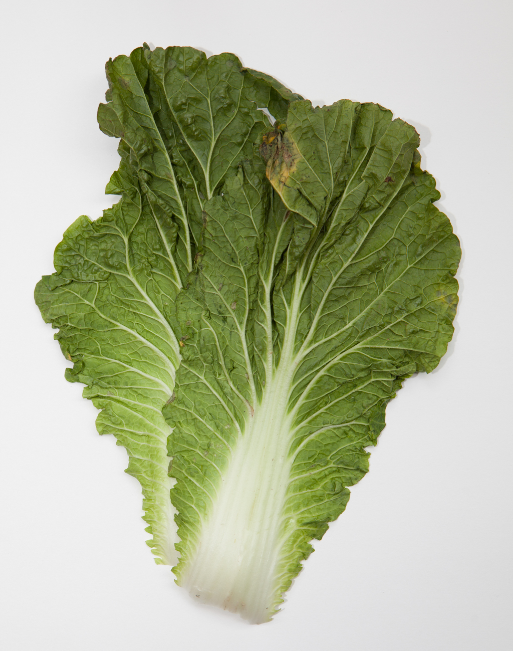 ugeoji (outer leaves of napa cabbage)